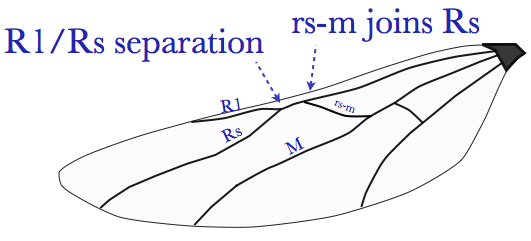 A simplified illustration of a braconid hind wing. There are two labels helping illustrate the difference between ichneumonid and braconid hind wings. The vein names follow Gauld 1991 (The Ichneumonidae of Costa Rica), and may not be conventional for braconids.